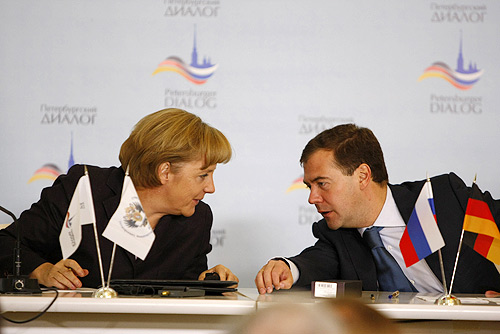 ST PETERSBURG. At the meeting Petersburg Dialogue Russian-German public forum. With Federal Chancellor of Germany Angela Merkel.